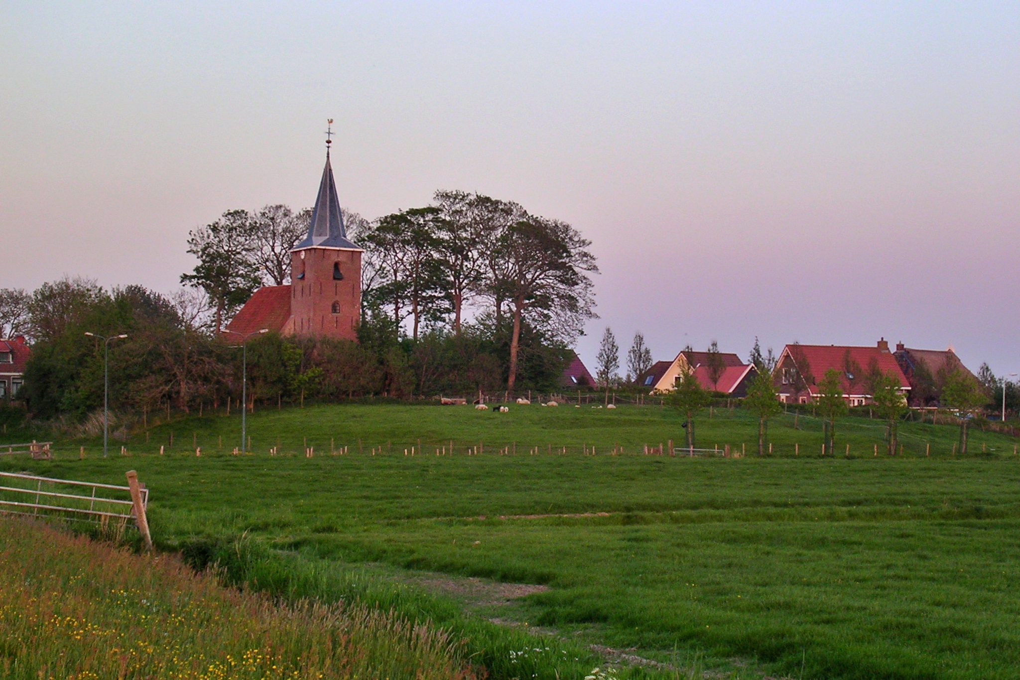 Church in the village RaardFrysk: Tsjerke fan Raard